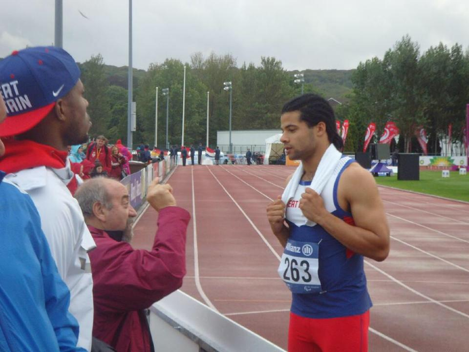 Sam Ruddock with Jim Edwards